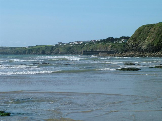 Tramore